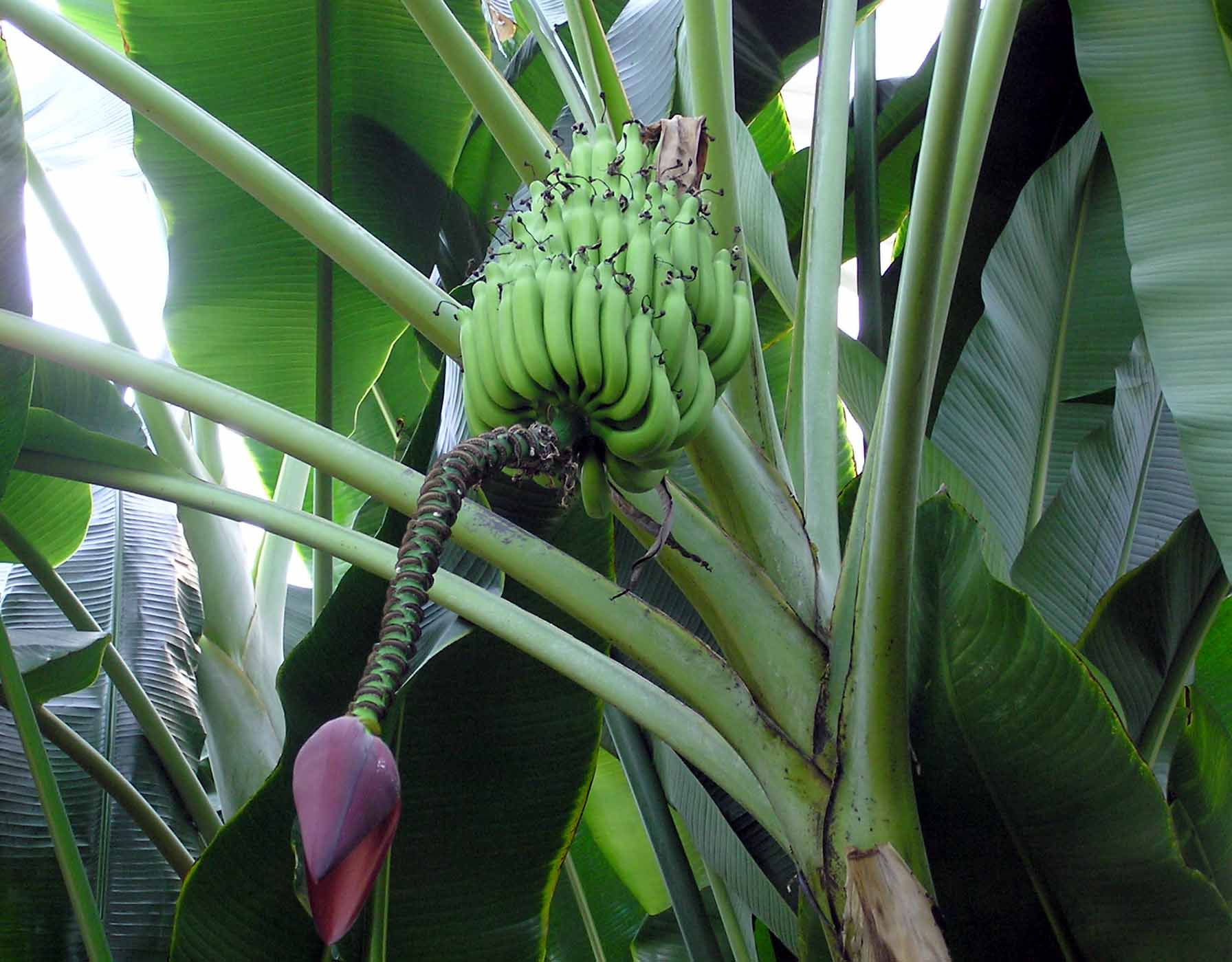 Banana plant at Kew Gardens, London, England.